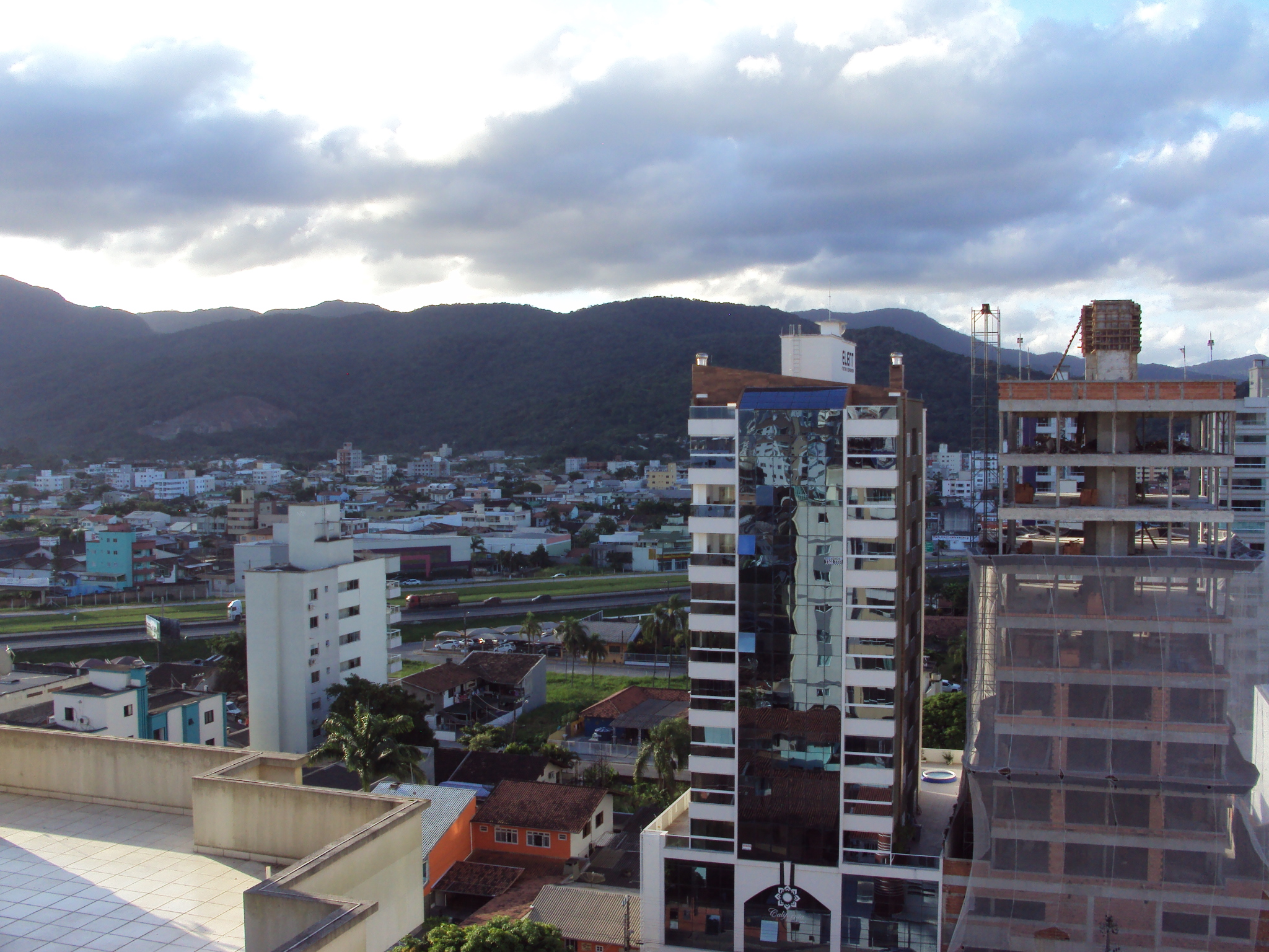 View of Itapema, SC, 2017.